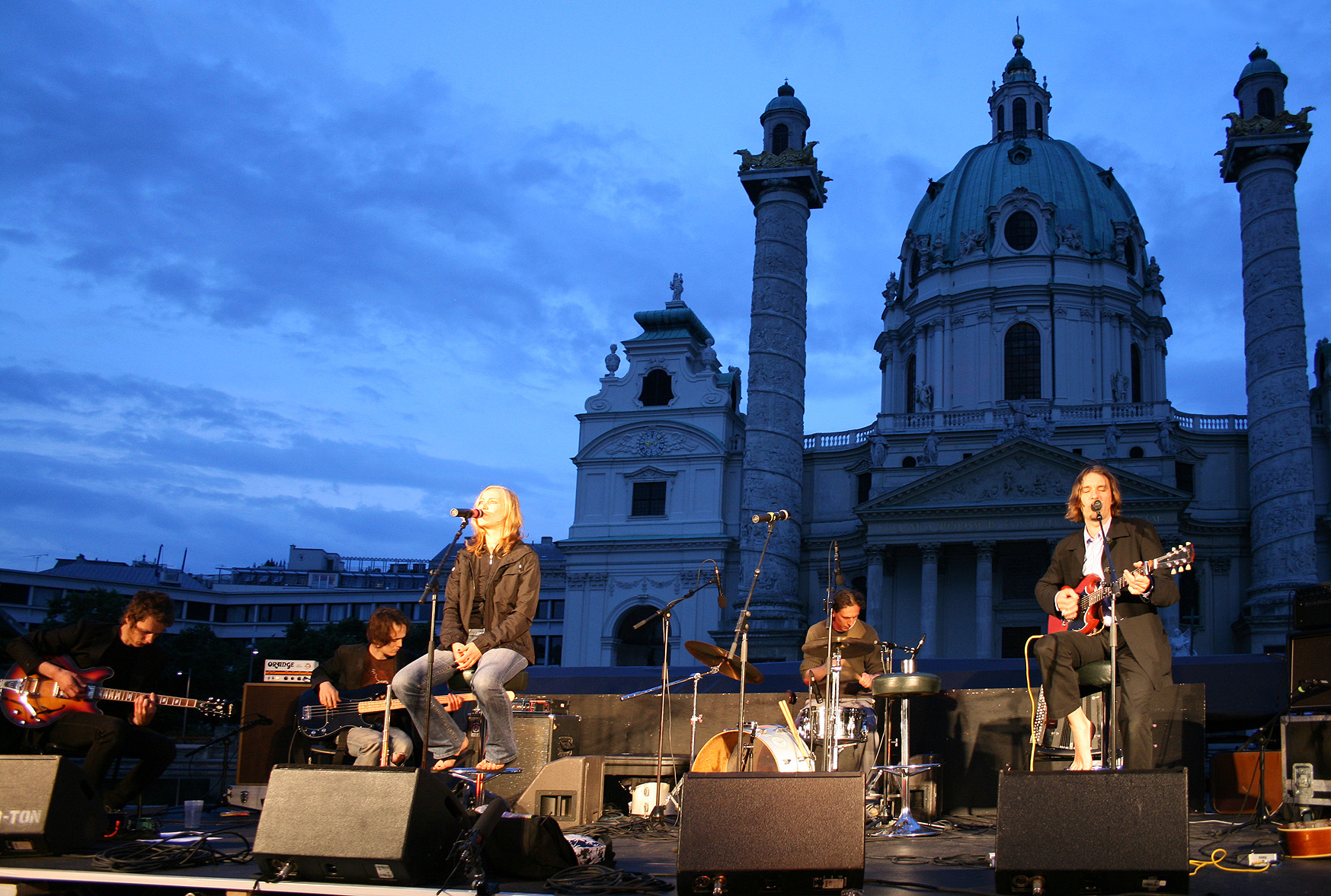 Austria, Vienna, St. Charles's Church